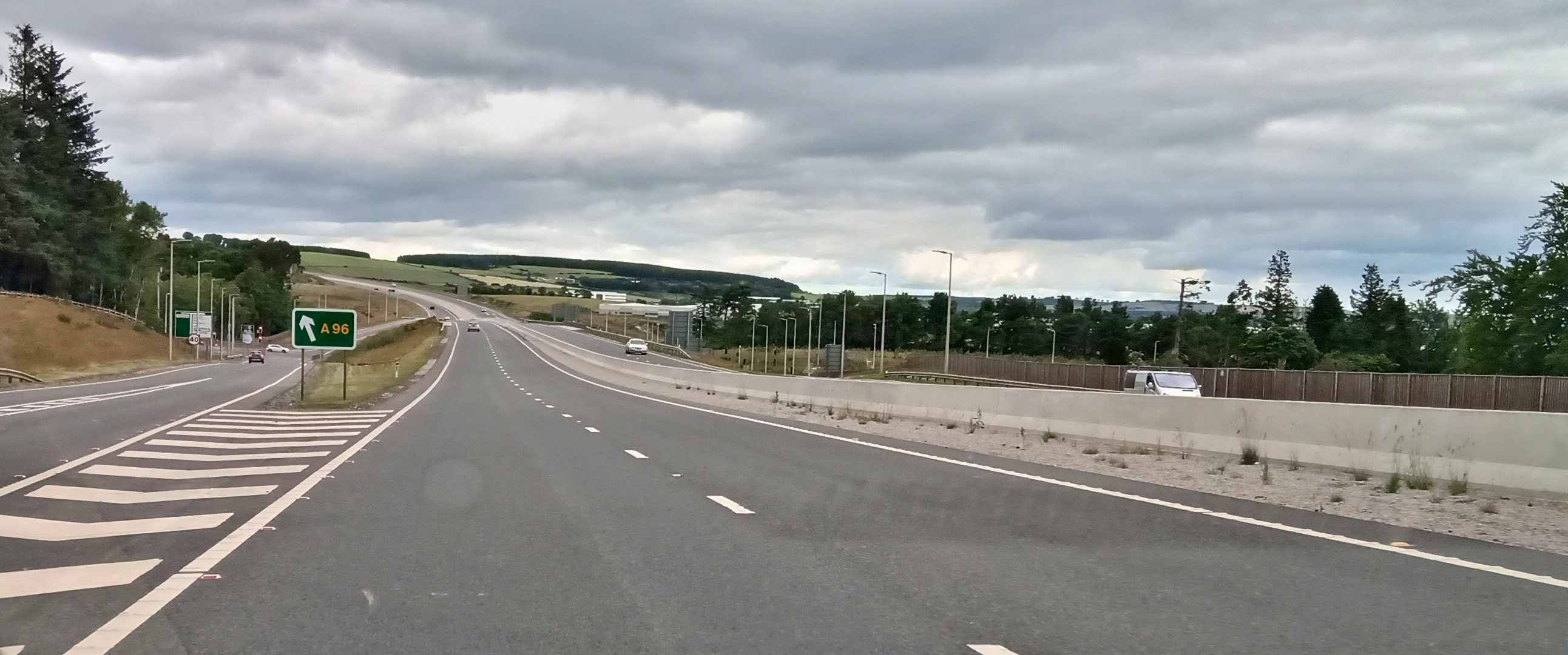 Aberdeen Western Peripheral Route at A96 junction heading northwards.